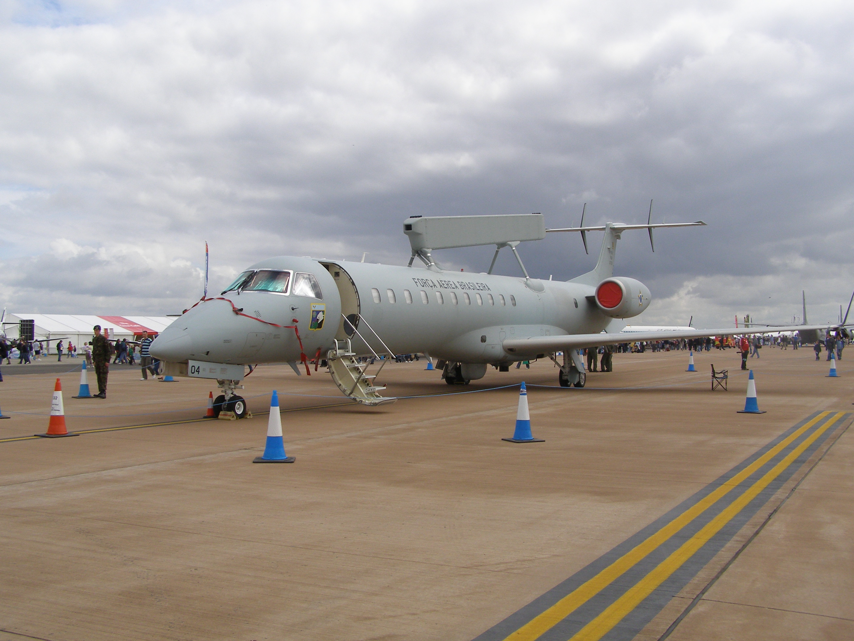 Embraer R-99A of Brazilian Air Force at RAF Fairford, England